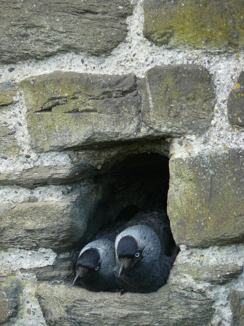 Two Jackdaws (Corvus monedula) in a hole in a wall at Conwy Castle, Clwyd, Wales.